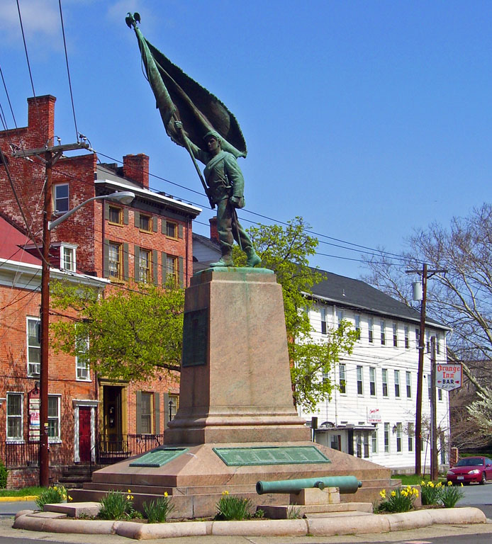 Monument to 124th New York Volunteer Infantry Regiment along NY 207 in Goshen, NY USA. The coordinates are approximately 41°24′10″N 74°19′16″W / 41.402775°N 74.321011°W. The statue's official designation is "The Standard Bearer."[1] Designed by Theo Alice Ruggles Kitson, it was dedicated on September 5, 1907.[2] Photographed by Daniel Case 2006-04-16.